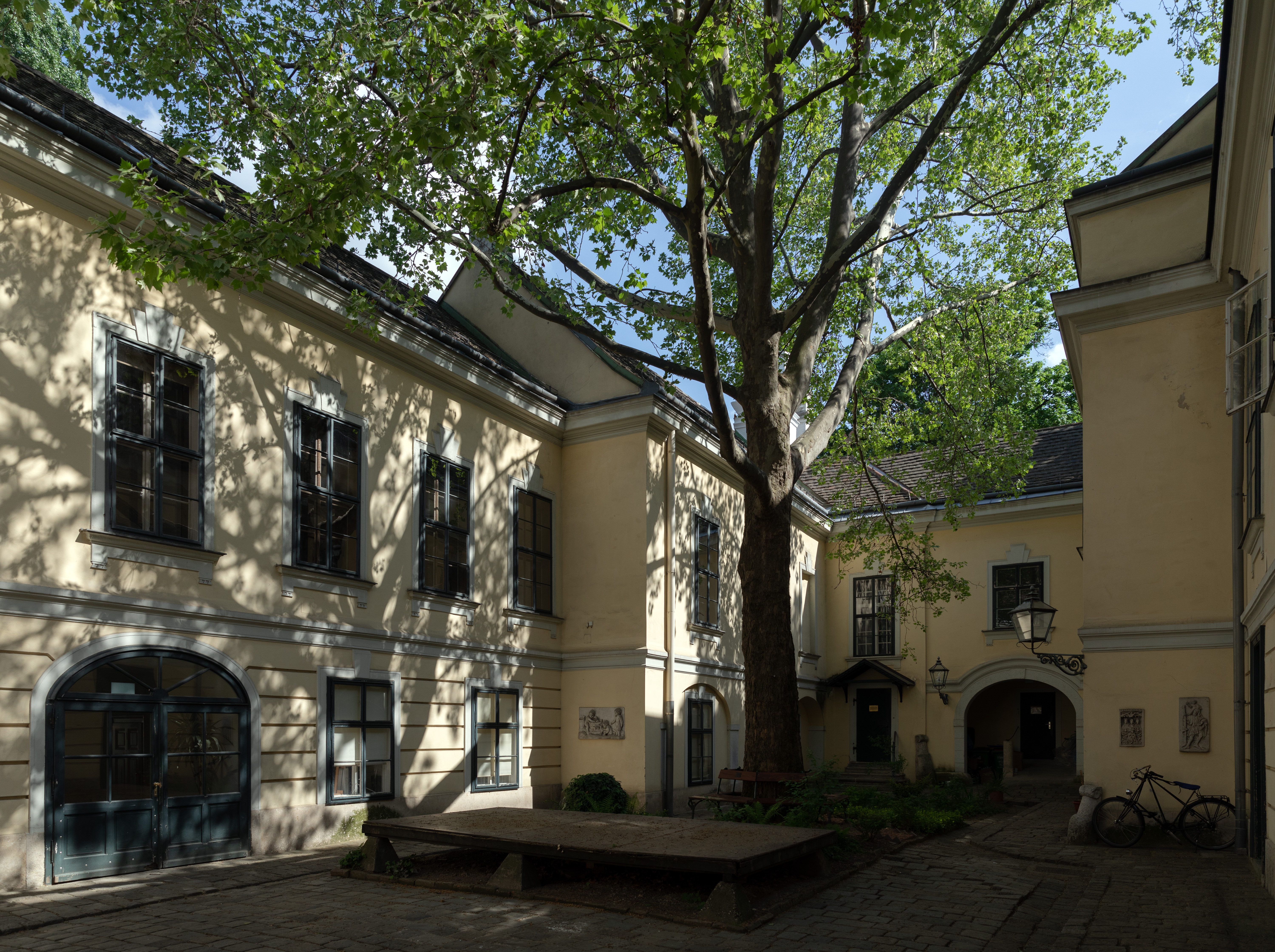 Austrian Museum of Folk Life and Folk Art at Palais Schönborn, Vienna, Austria.